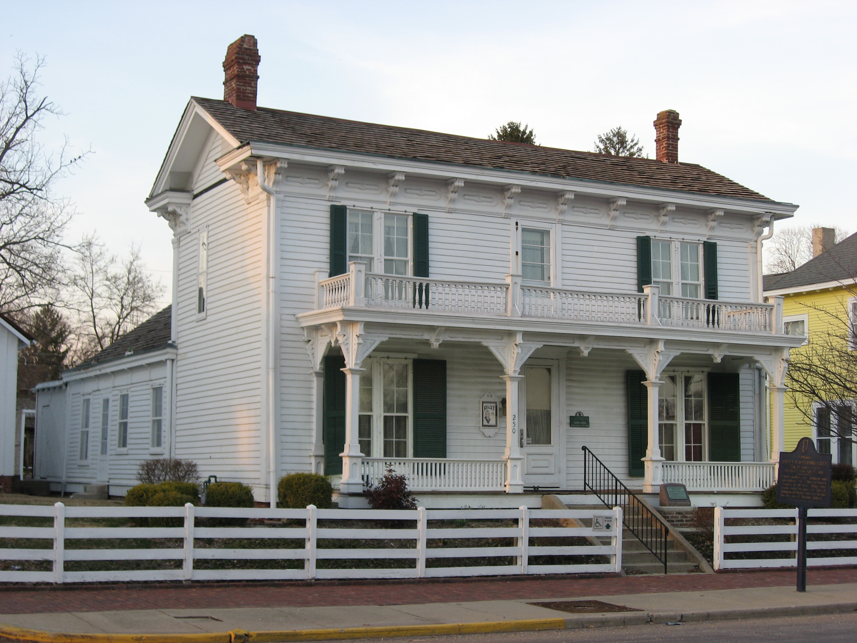 Front and western side of the James Whitcomb Riley Birthplace, located at 250 W. Main Street (U.S. Route 40) in Greenfield, Indiana, United States. Built in 1847, it is listed on the National Register of Historic Places.